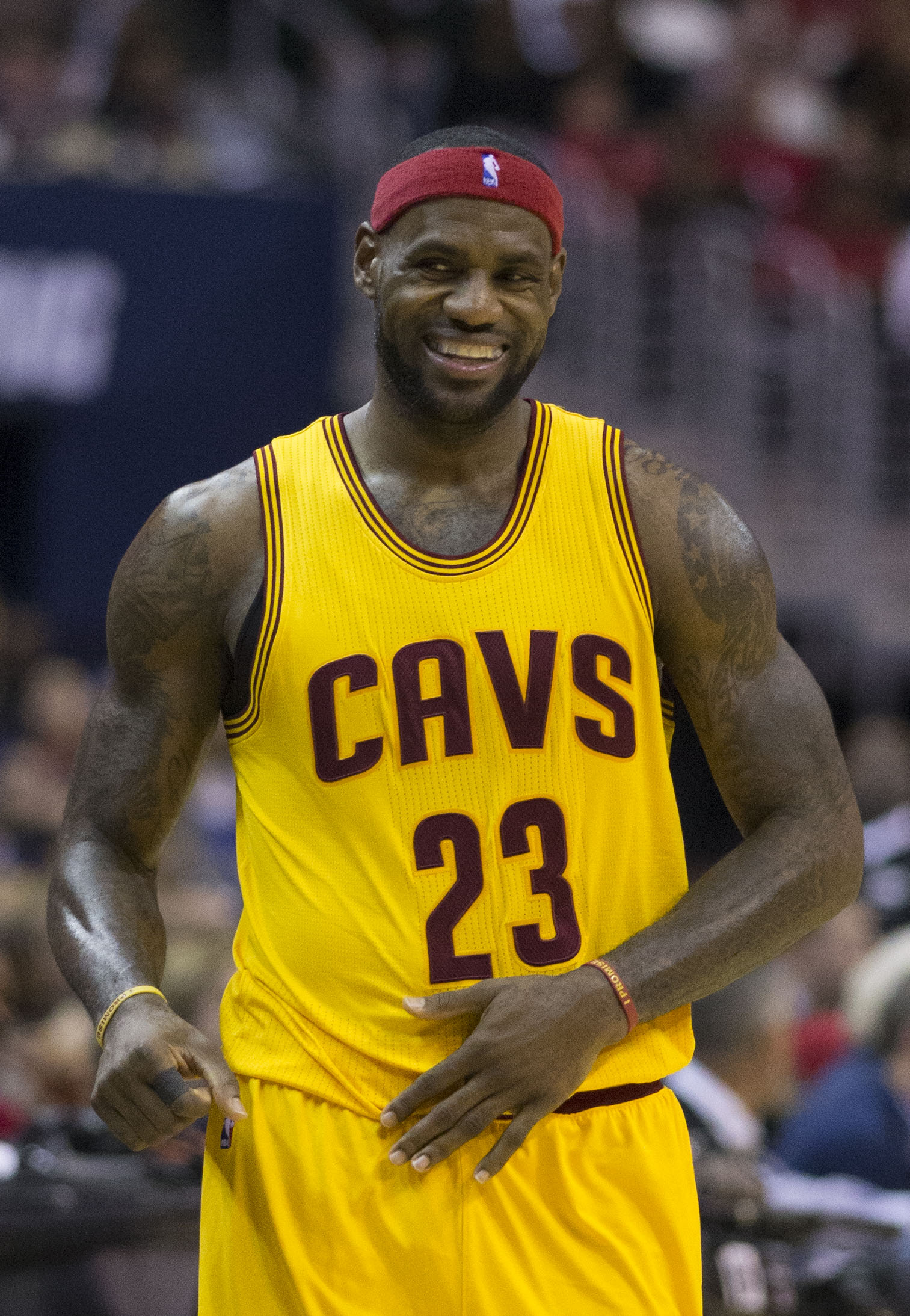 LeBron James of the Cleveland Cavaliers in a game against the Washington Wizards at Verizon Center on November 21, 2014 in Washington, DC.